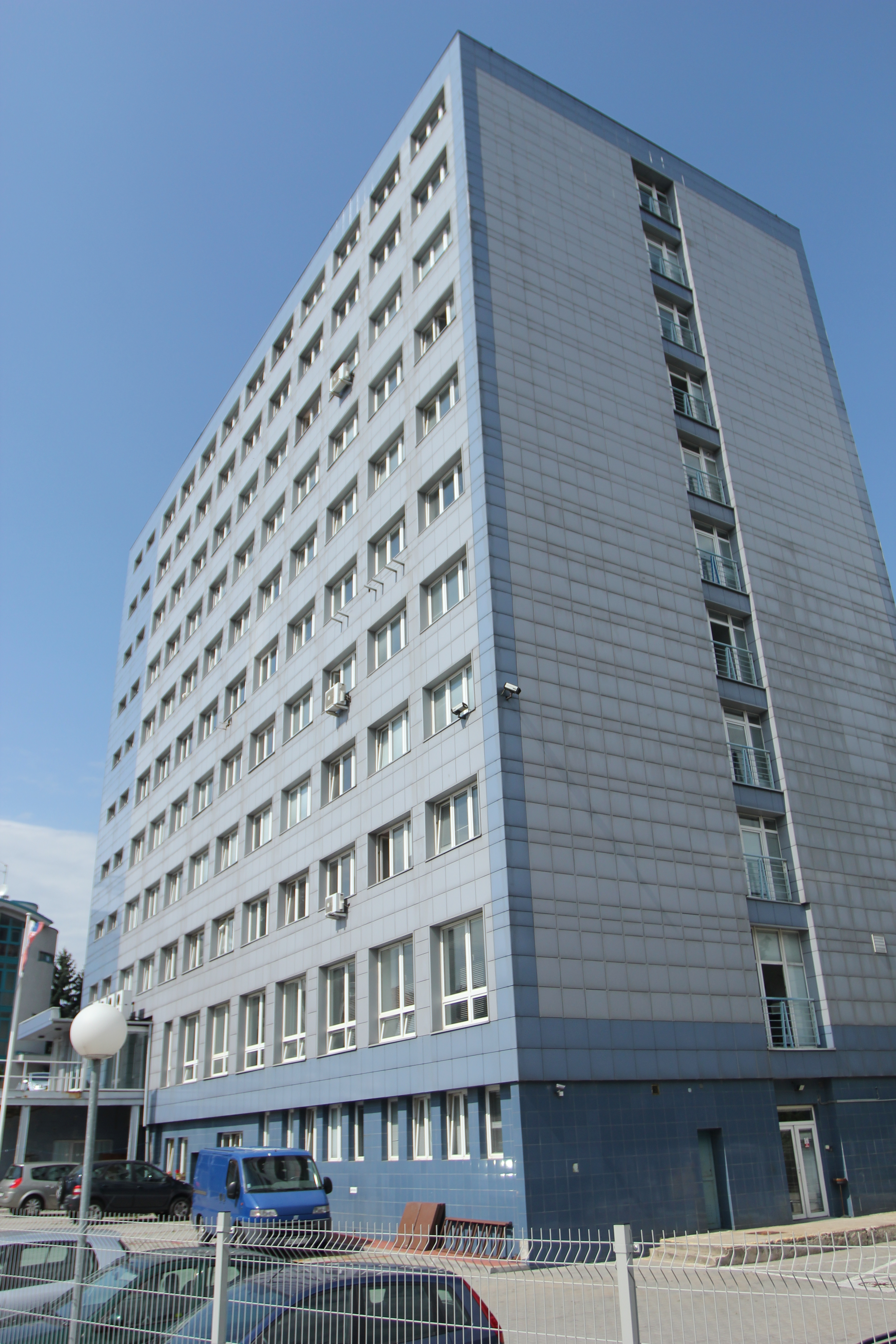 Ministry of Education, Science, Research and Sport of the Slovak Republic.